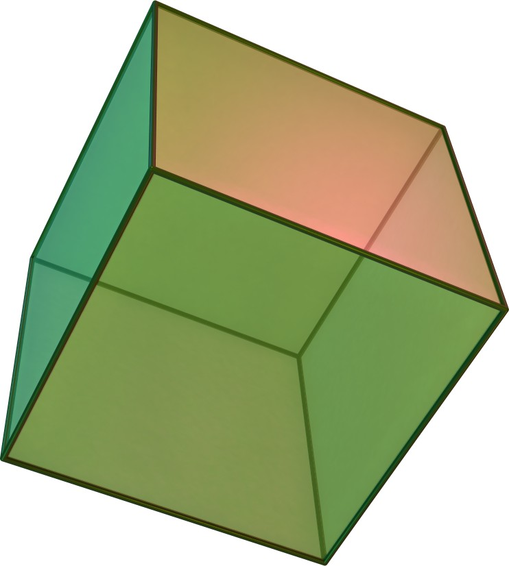 A Hexahedron (cube). A regular polyhedron.